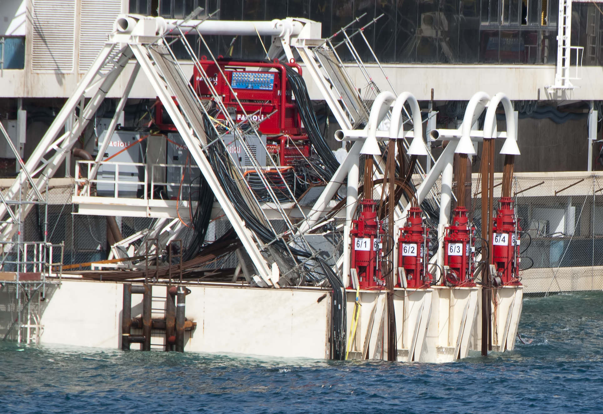 The idraulic system used to reach 24 degrees of inclination